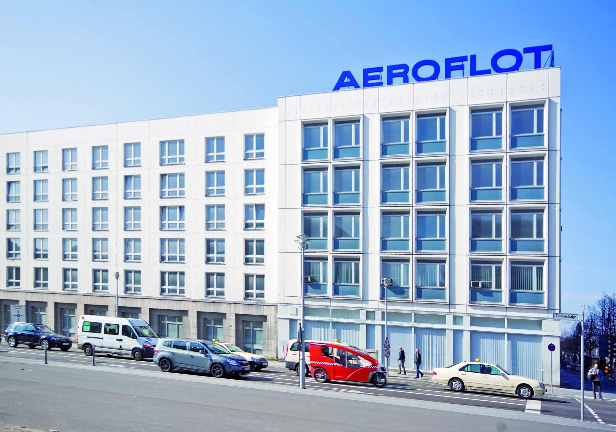 Office of Aeroflot in Unter den Linden 51 -53, Berlin